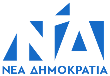 The new logo of the New Democracy party in Greece (2018).